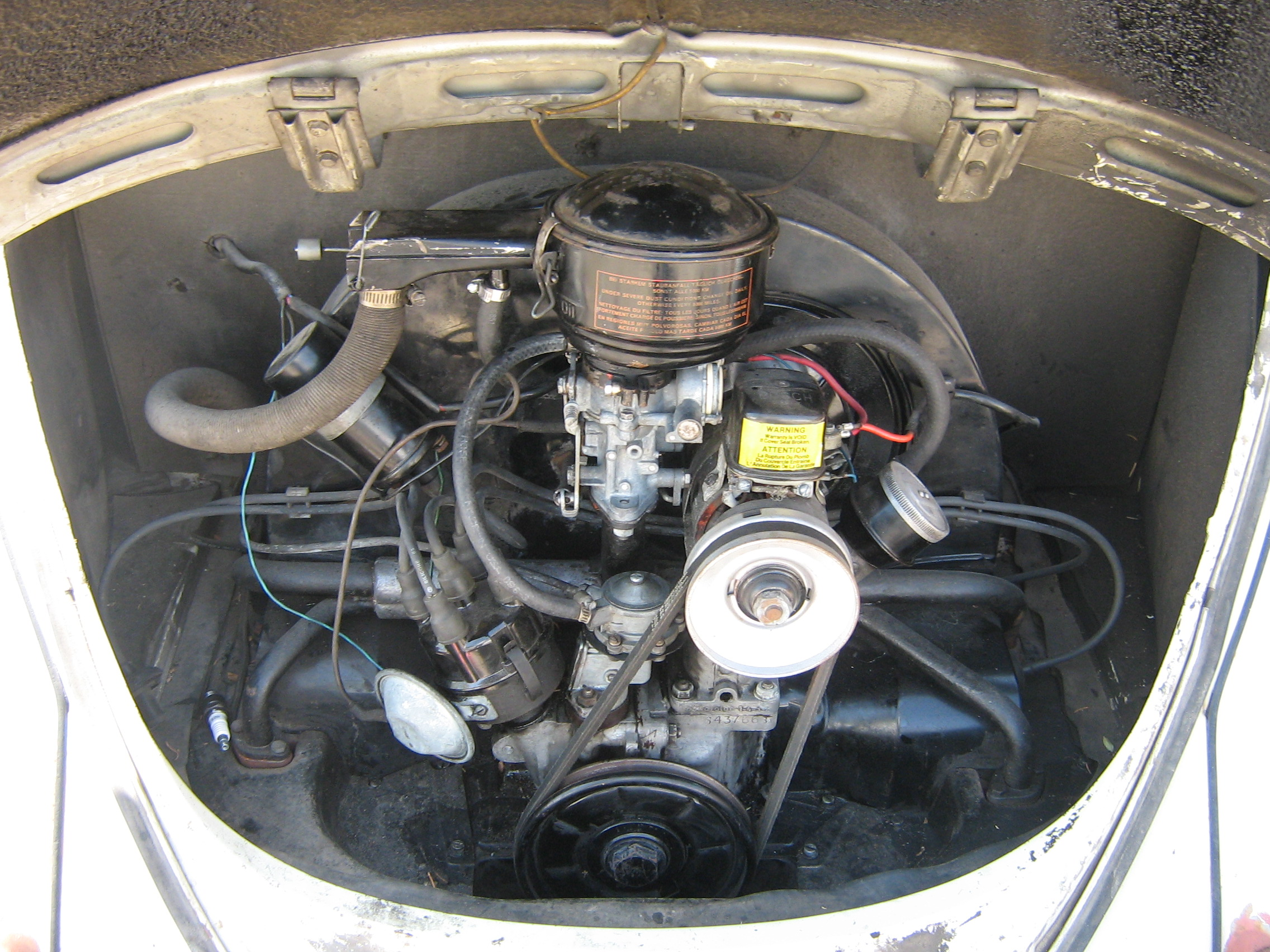 Cleaned up carburetor installed.